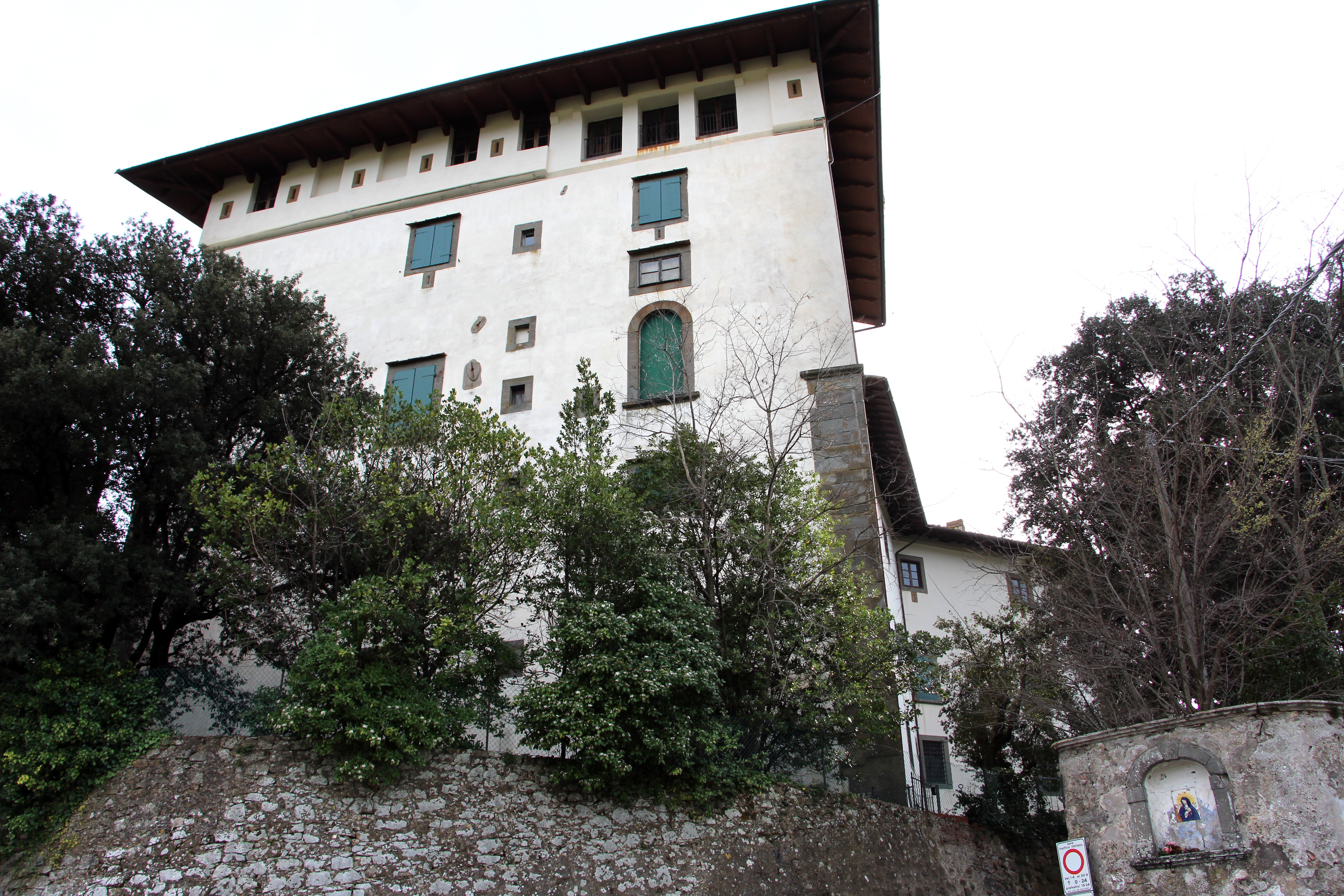 Montevettolini Villa